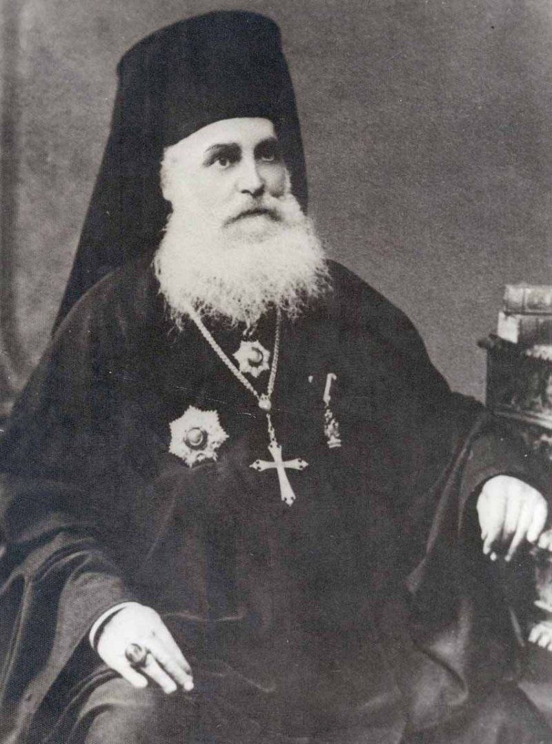 Nilus Izvorov